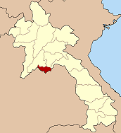 Map of Laos highlighting the Vientianne prefecture.